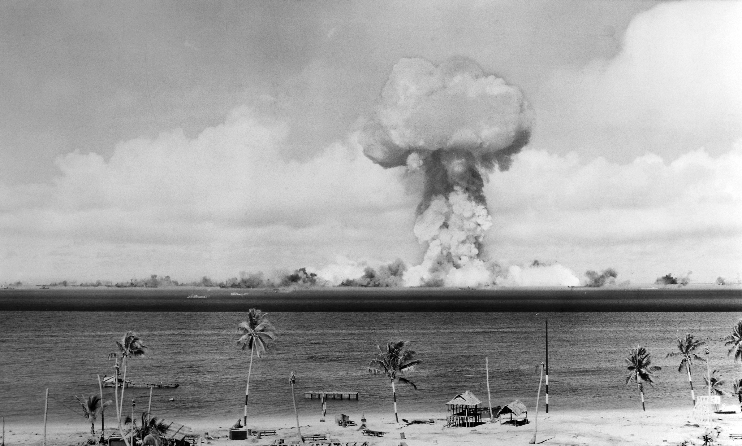 Able, atomic bomb detonated in 1946 by the US Army as part of Operation Crossroads. Photo by US